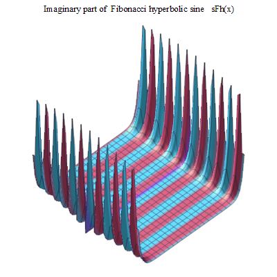 Fibonacci hyperbolic sine imaginary part 3D